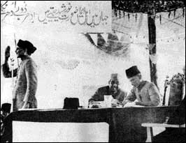 source: Story of Pakistan